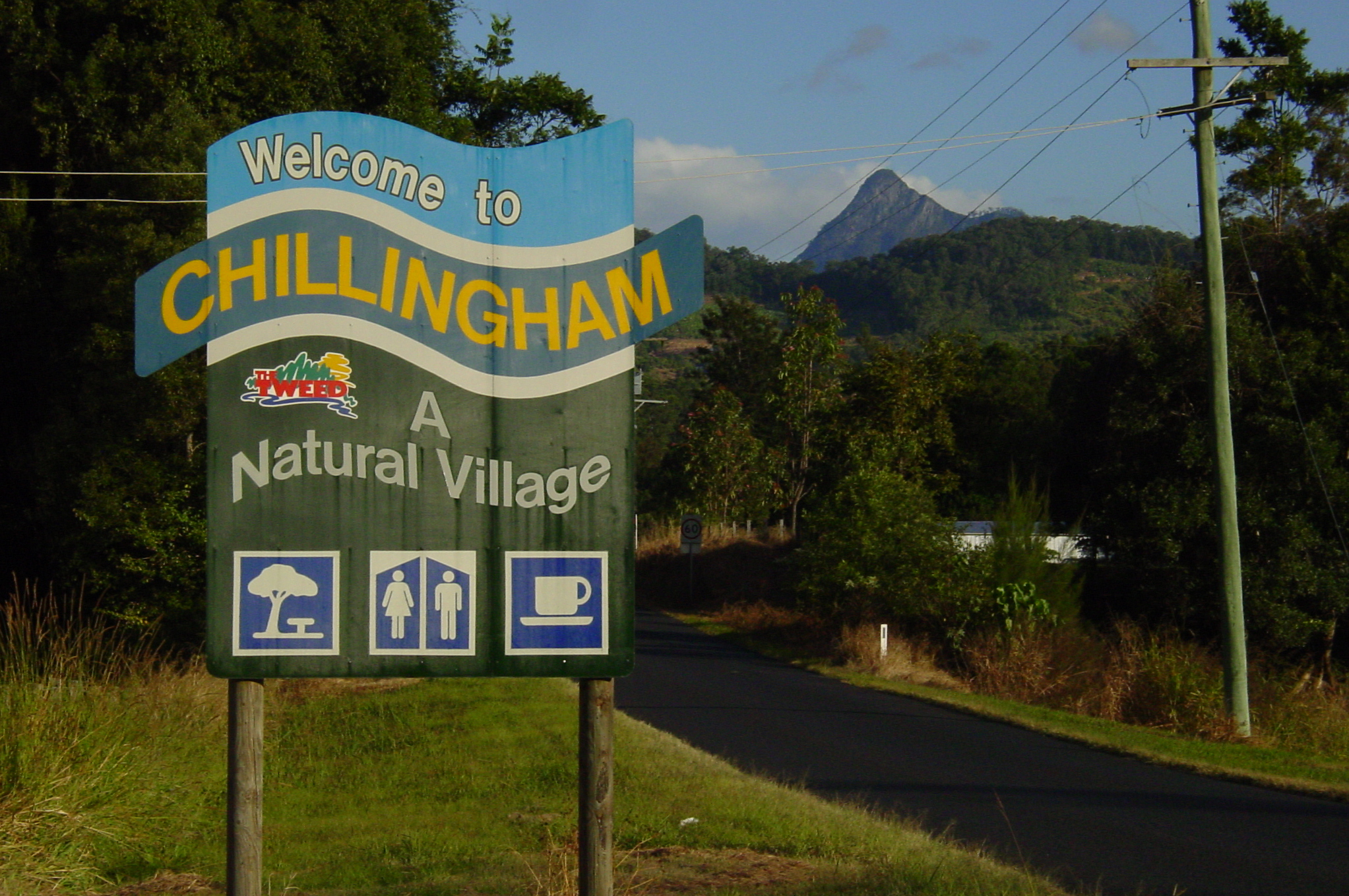 A picture of the Chillingham, New South Wales, Village sign.